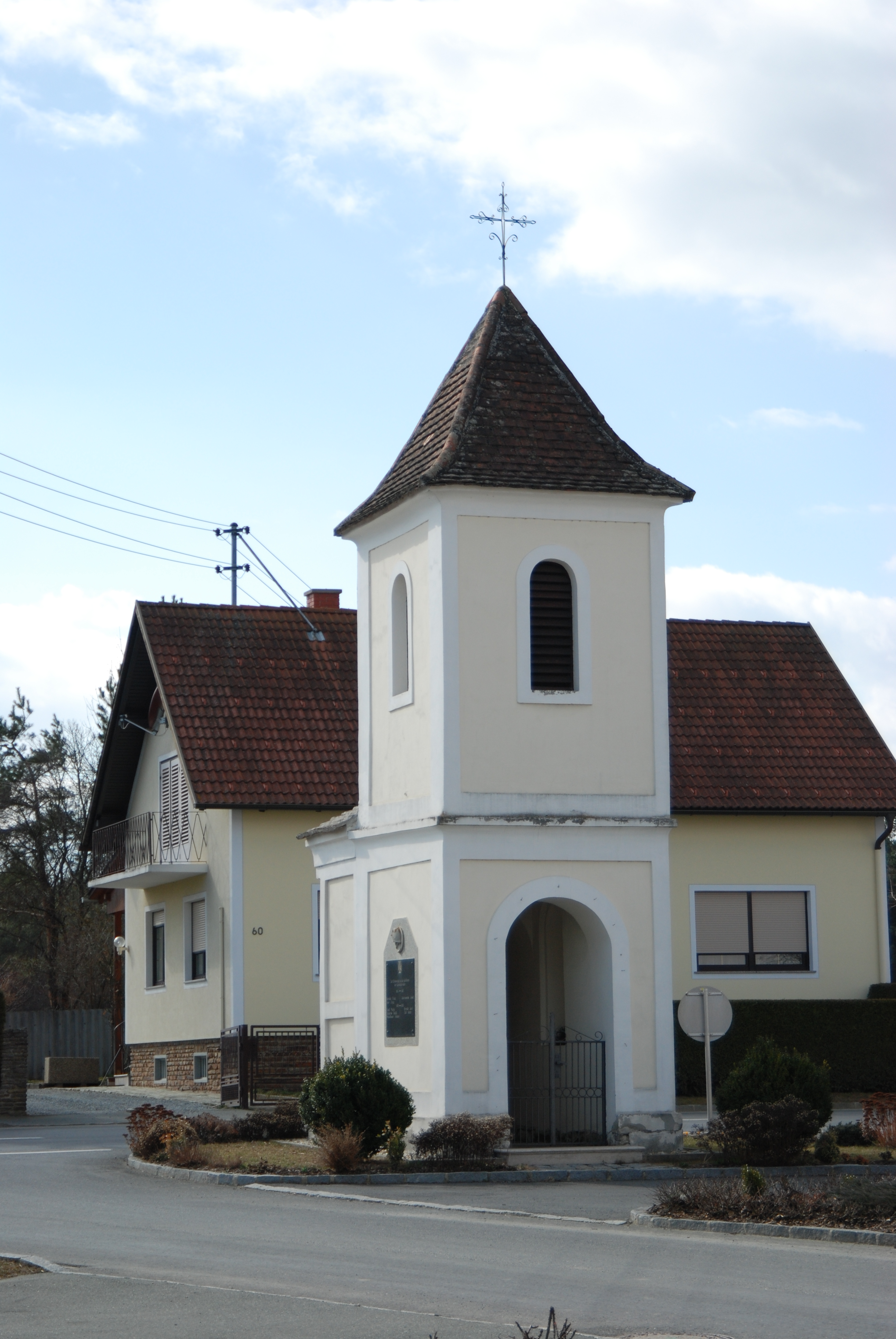 Kirche Kulm